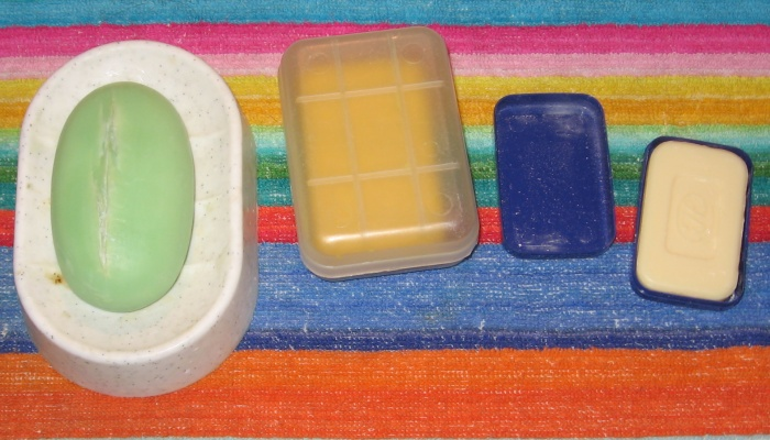 Soap containers